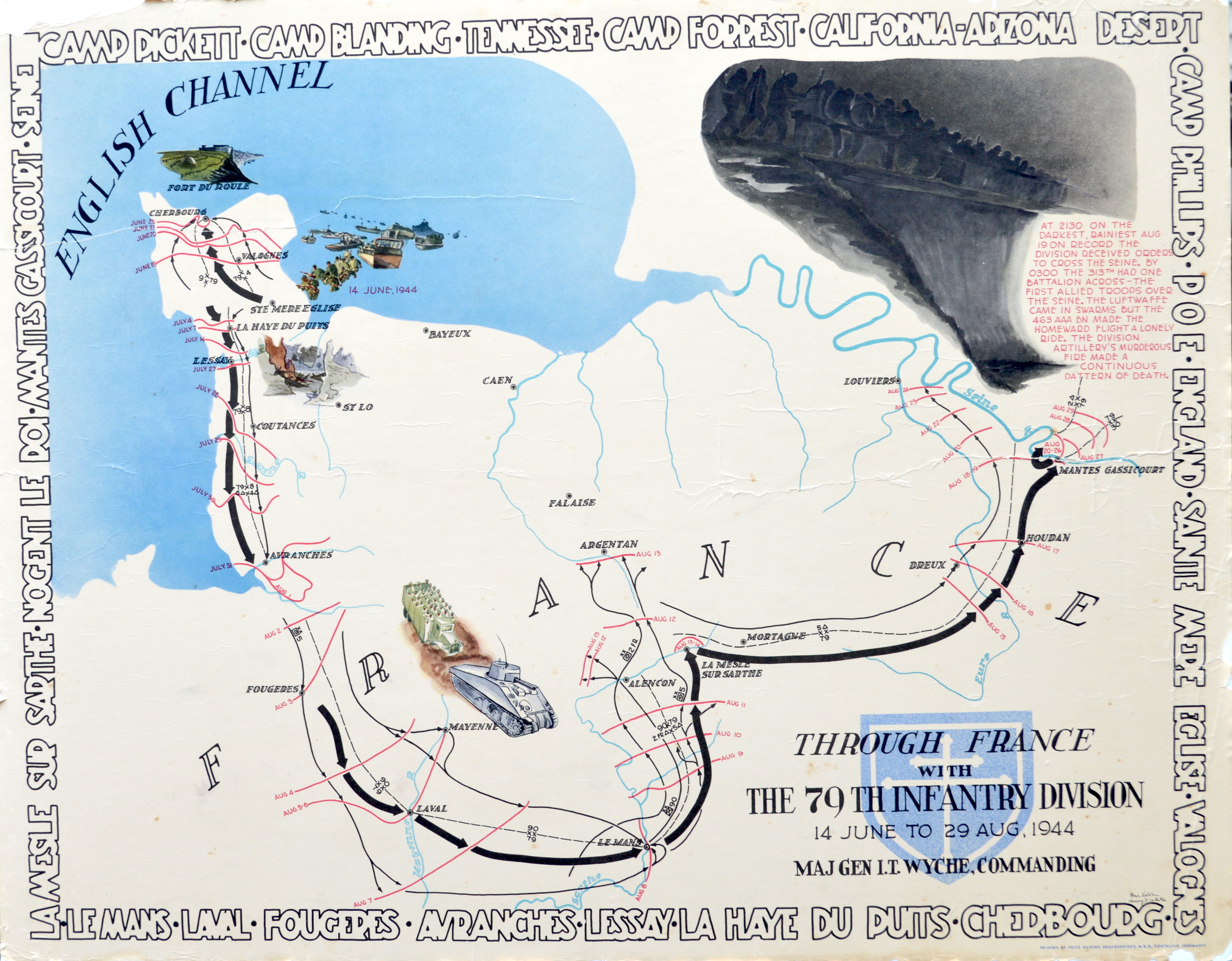 Four diagrammatic posters, printed by and marked "Fritz Busche Druckereiges M.B.H., Dortmund (Germany)" were made available to soldiers by the US Army at the end of the war. No copyright information is given or implied on the poster. The posters depict the detailed movements, by date, with military battlefield symbols on stylized maps, of the 79th Infantry Division during its four campaigns during WWII. Each poster summarizes one battle campaign. The posters each measure 33.75 inch (85.7 cm) wide by 26.25 inch (66.7 cm) tall. They are signed in the lower-right corner by Henry D. White and Steve Kalihan(? unclear writing) or Steve Kaliber(? unclear writing), presumably the artists/authors of the posters.